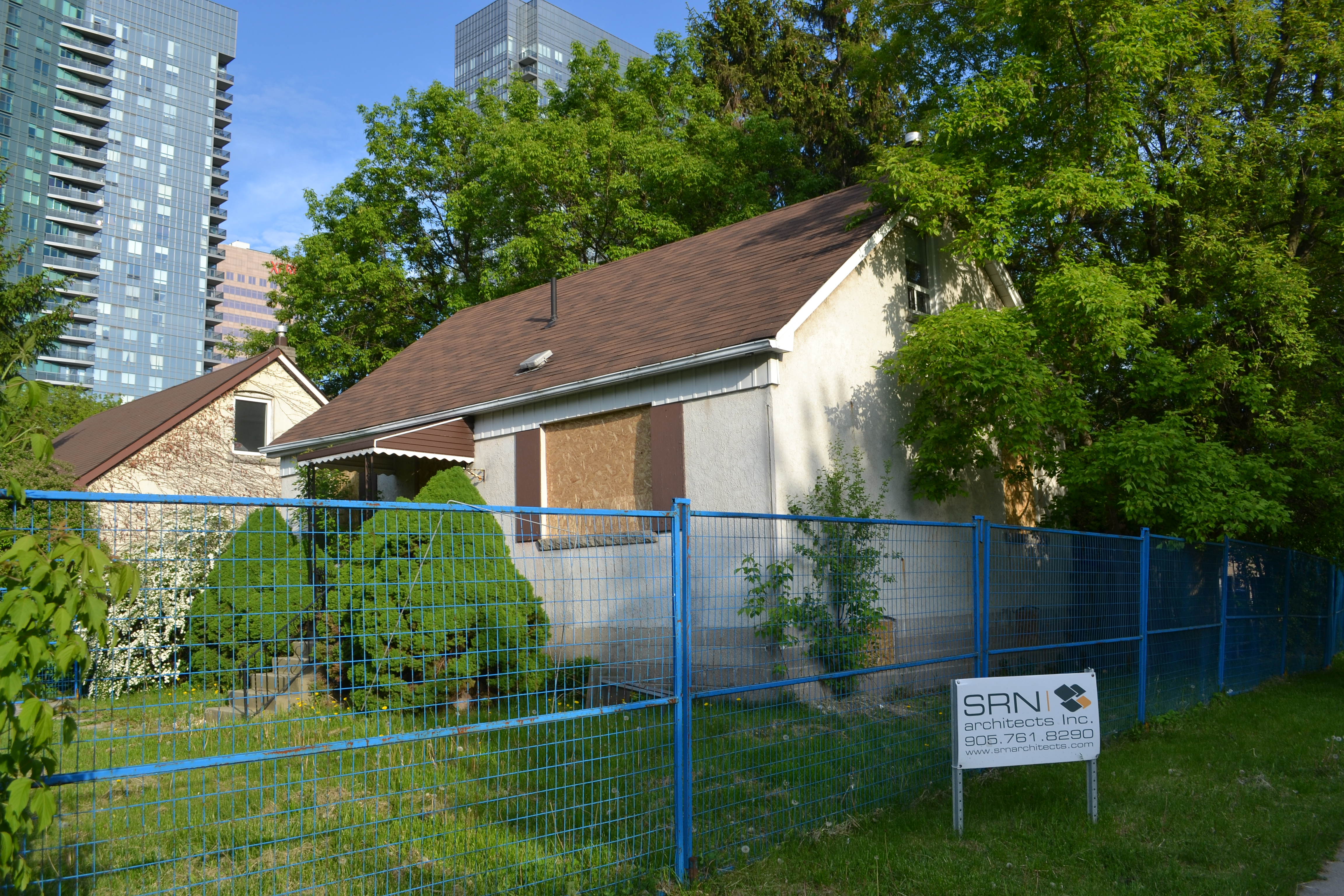 Construction in Eldora Avenue.